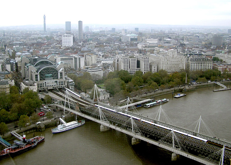 Hungerford Bridge seen from the London Eye observation wheel. Photo taken by Adrian Pingstone in November 2004 and released to the public domain.